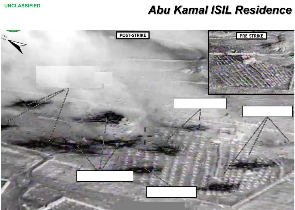 Strikes in Syria and Iraq, Sept. 23, 2014. Abu Kamal ISIL Residence in Syria. Unclassified DoD Briefing.